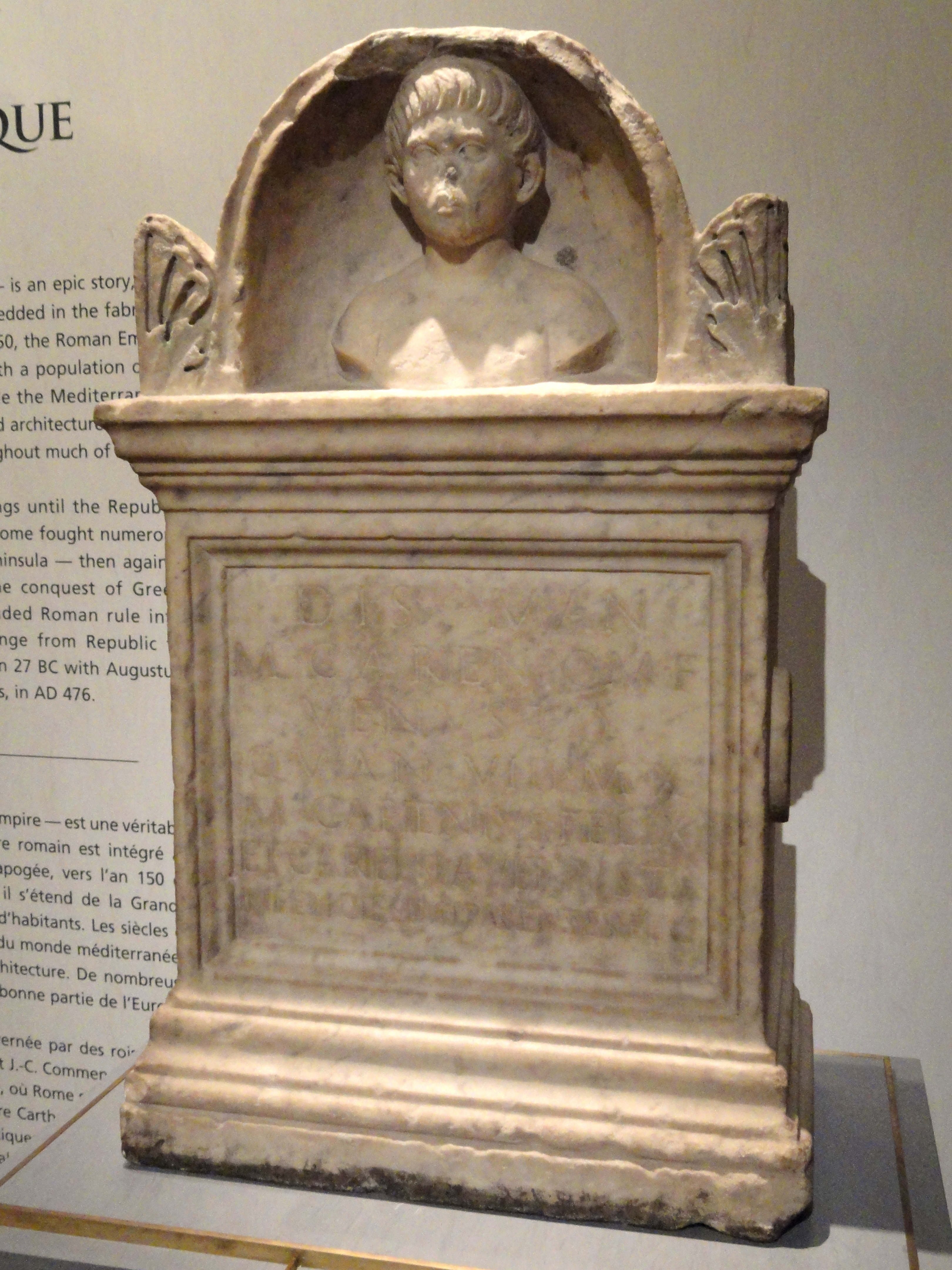 Exhibit in the Royal Ontario Museum, Toronto, Ontario, Canada. This exhibit is old enough so that it is in the public domain, and photography was permitted in the museum. I took this photograph and release it into the public domain.